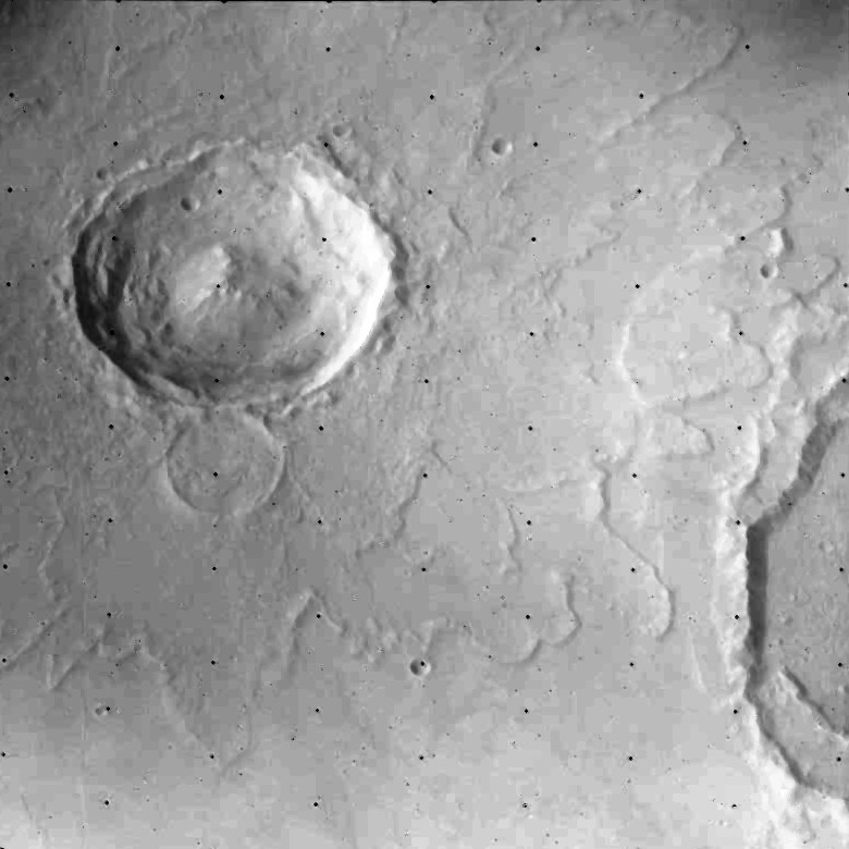 Yuty crater with ejecta of rampart form, Mars. Viking Orbiter 1 image 003A07.